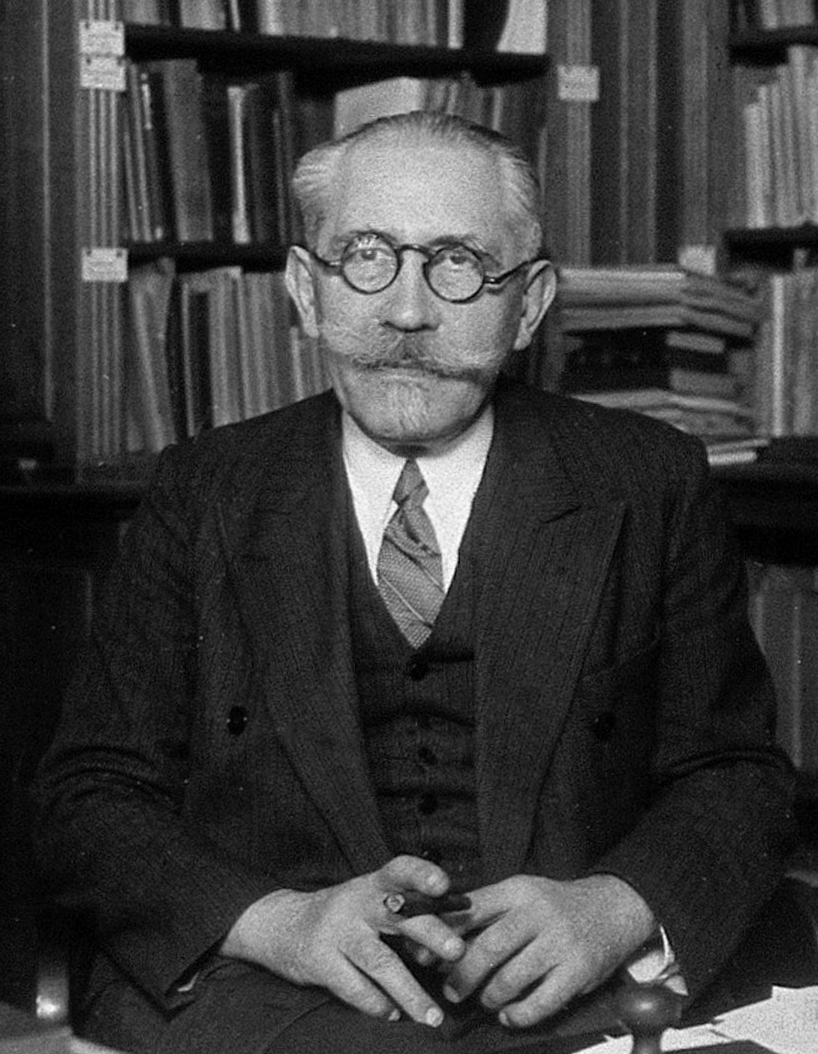 Paul Langevin. Photograph by Henri Manuel. Iconographic Collections Keywords: portrait photographs